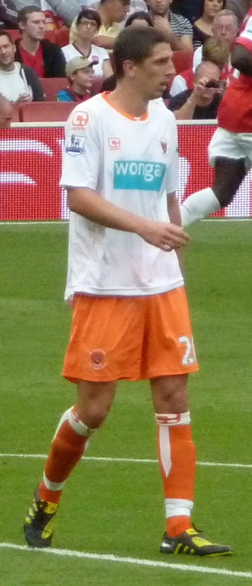 Craig Cathcart, cropped from Arsenal vs Blackpool